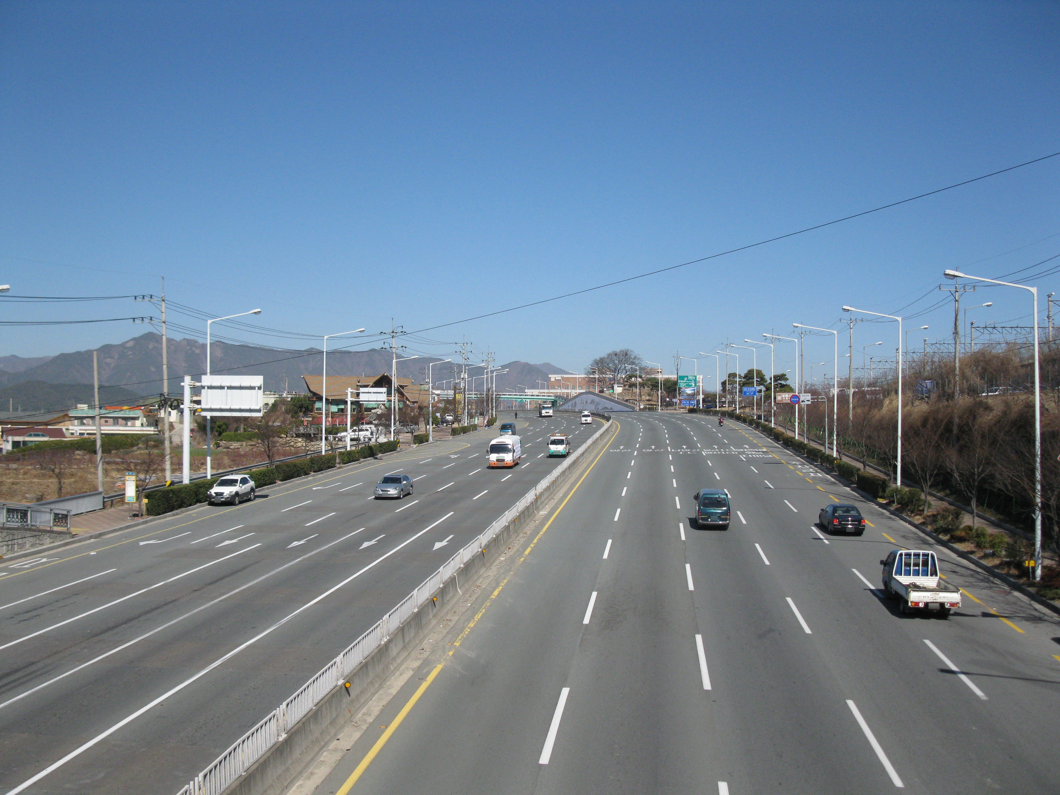 Route 35(Near Hopo Station)